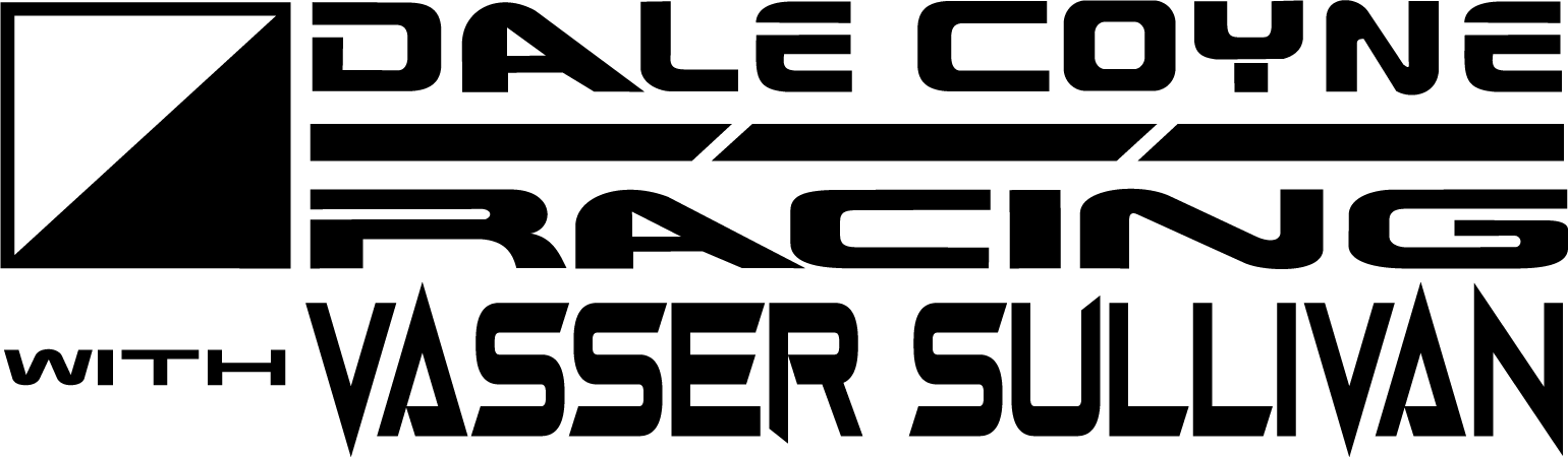 Dale Coyne Racing with Vasser Sullivan